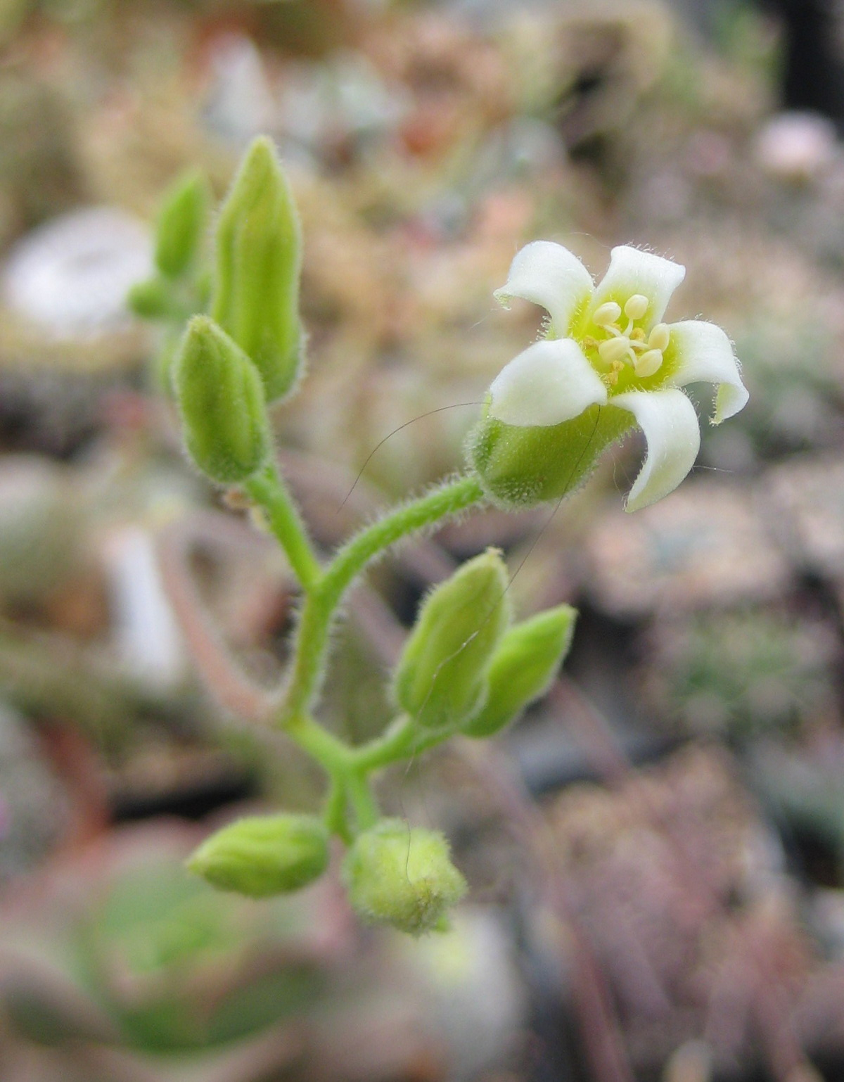 Tylecodon leucothrix